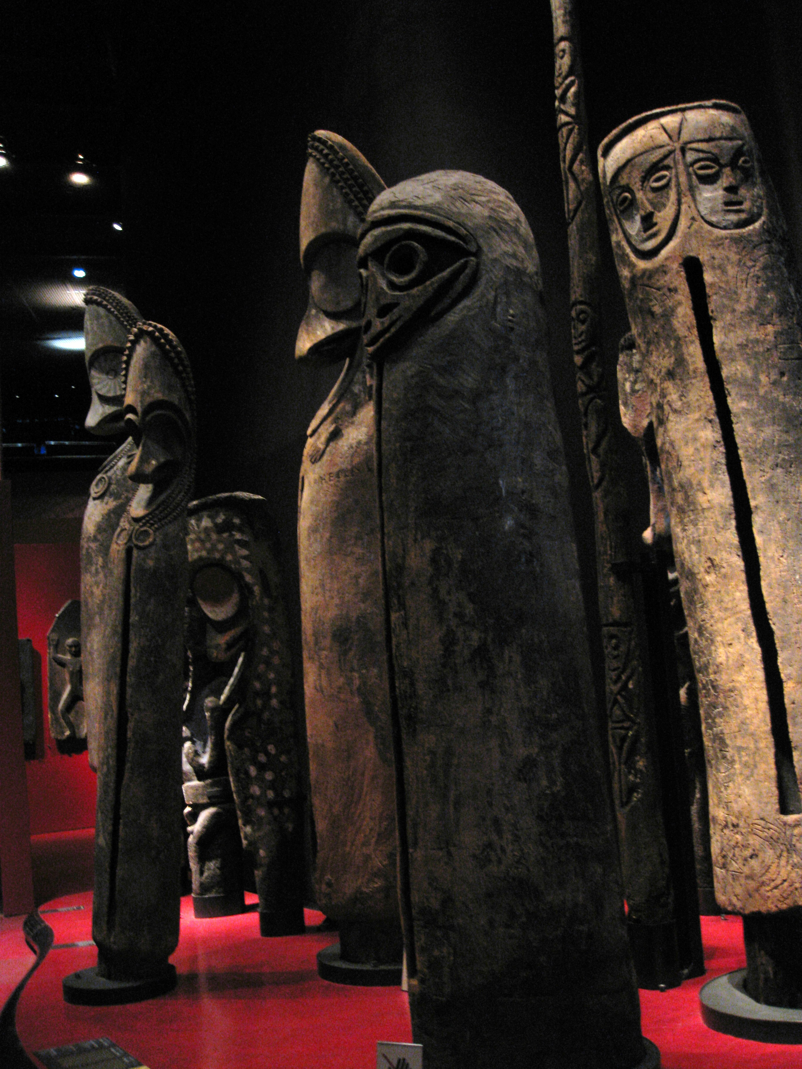 Wooden drums from Vanuato at the Musée du quai Branly